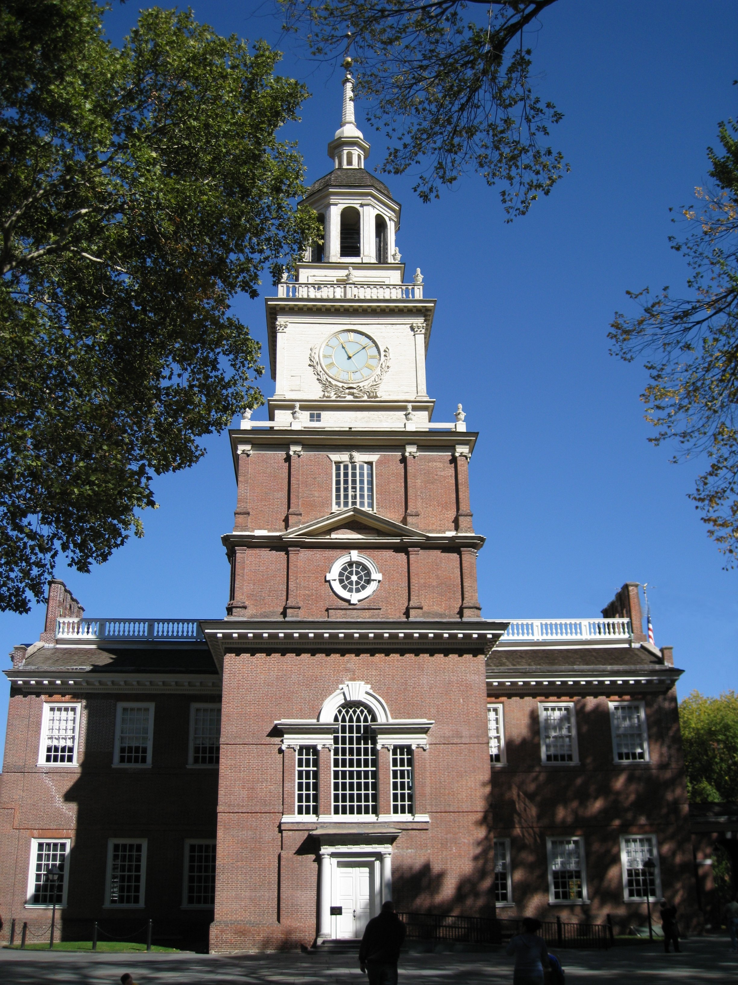 The clocktower at Independence Hall. Philadelphia, PA.